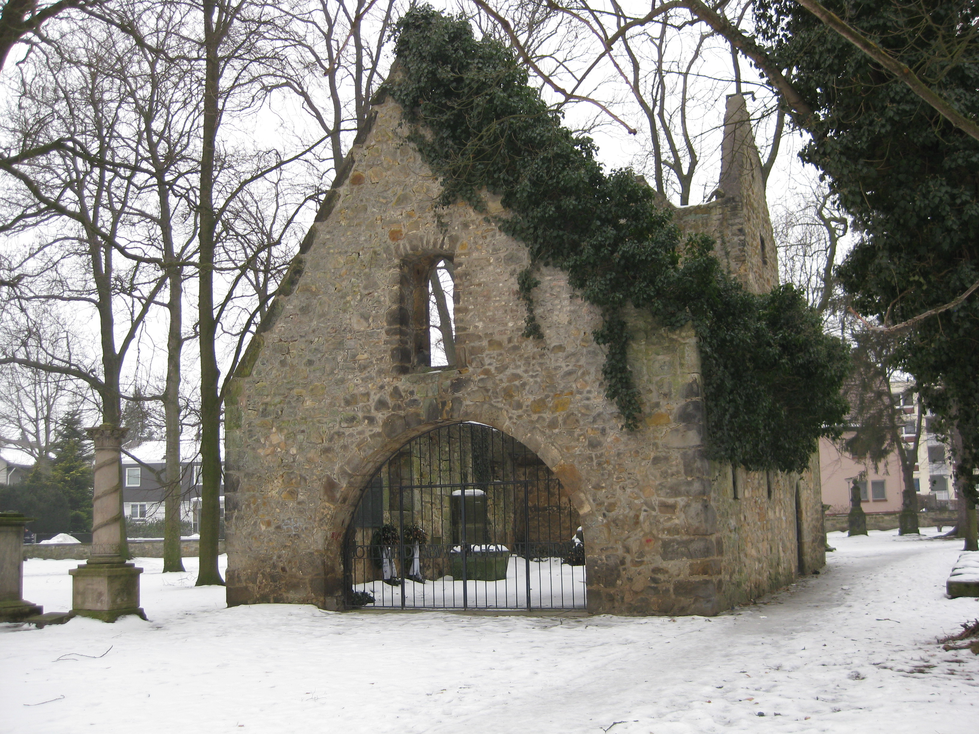 "Ruin of Vöppstedt" in Salzgitter-Bad. Ruin of 12th century St. James Church in the former village of Vöppstedt, now Salzgitter in Lower Saxony.